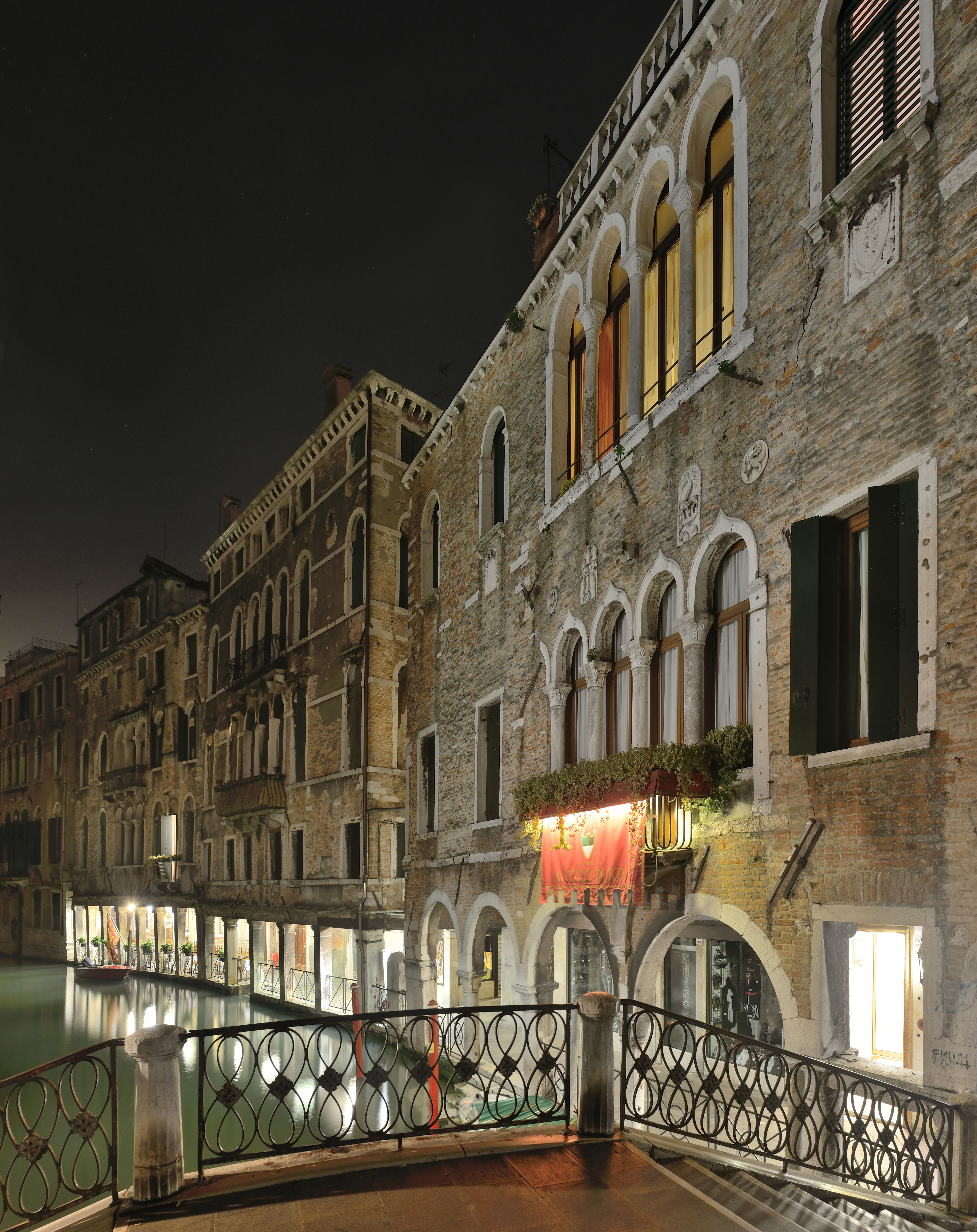 Palazzo Falier with view of the Rio Santi Apostoli canal from the Santi Apostoli bridge in Venice.